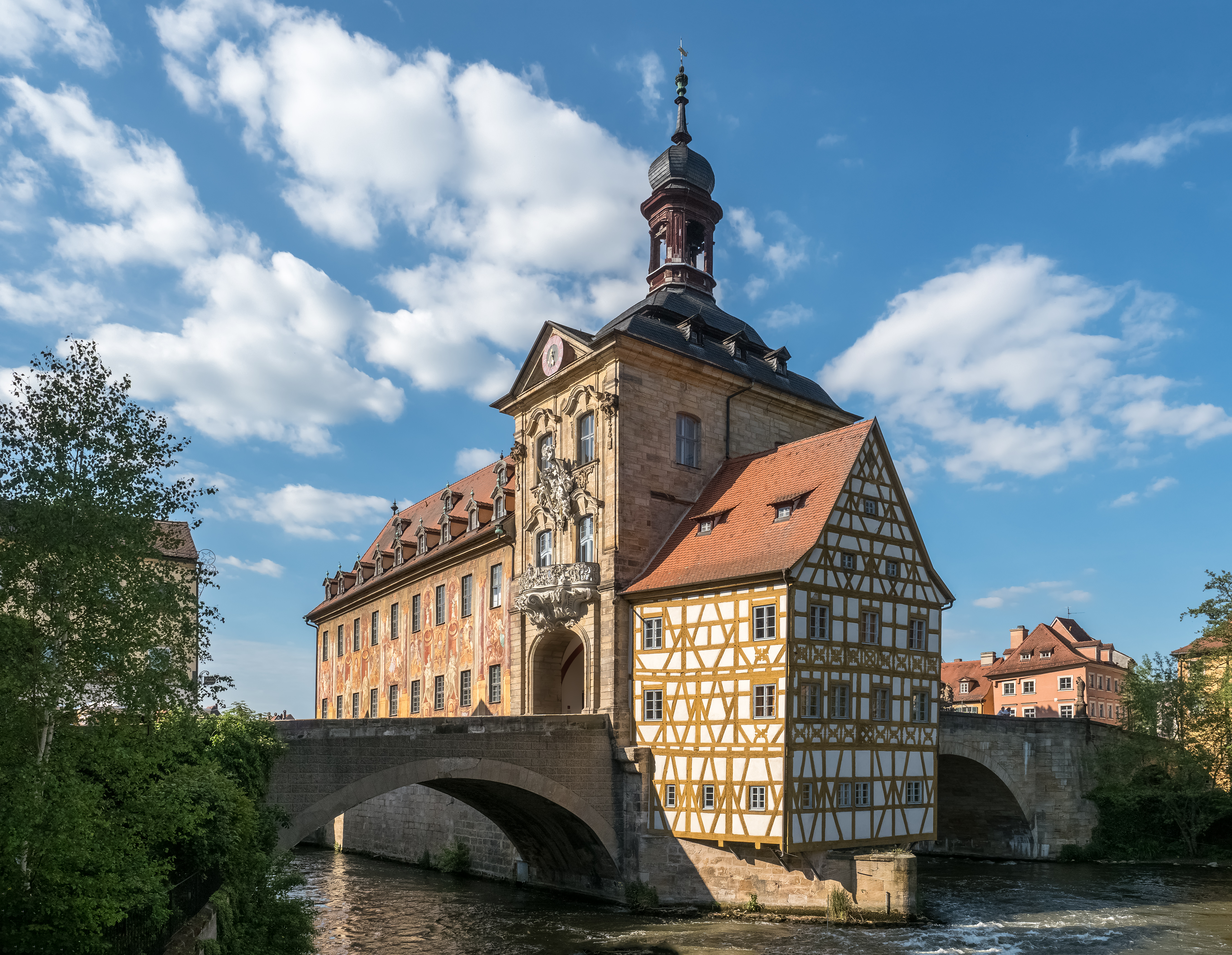 Old townhall in Bamberg